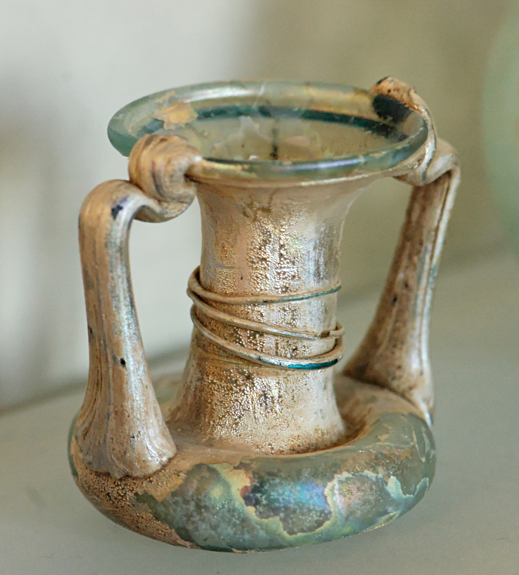 Double-handled vial with flattened belly.